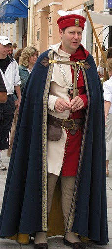 Urmas Kruuse